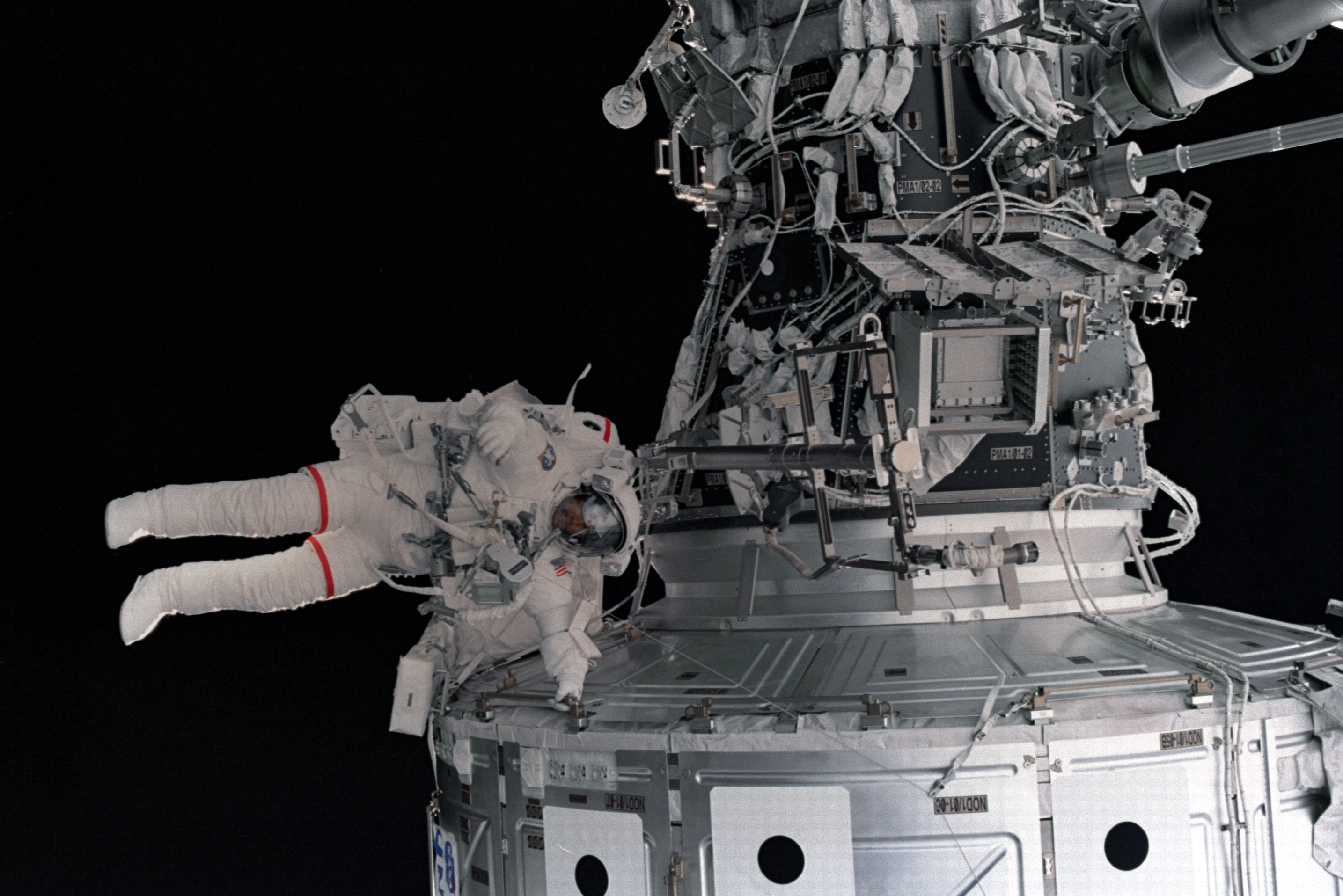 Astronaut Jeffrey N. Williams, mission specialist, hangs onto one of the newly-installed handrails on the International Space Station's pressurized mating adapter (PMA-2) during a 6-hour, 44-minute space walk.